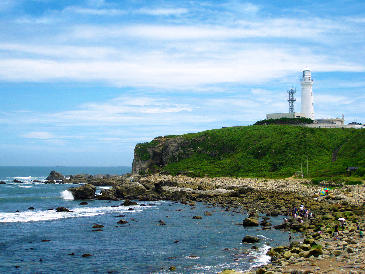 犬吠埼灯台 (Inubozaki Lighthouse) 07 Aug, 2009